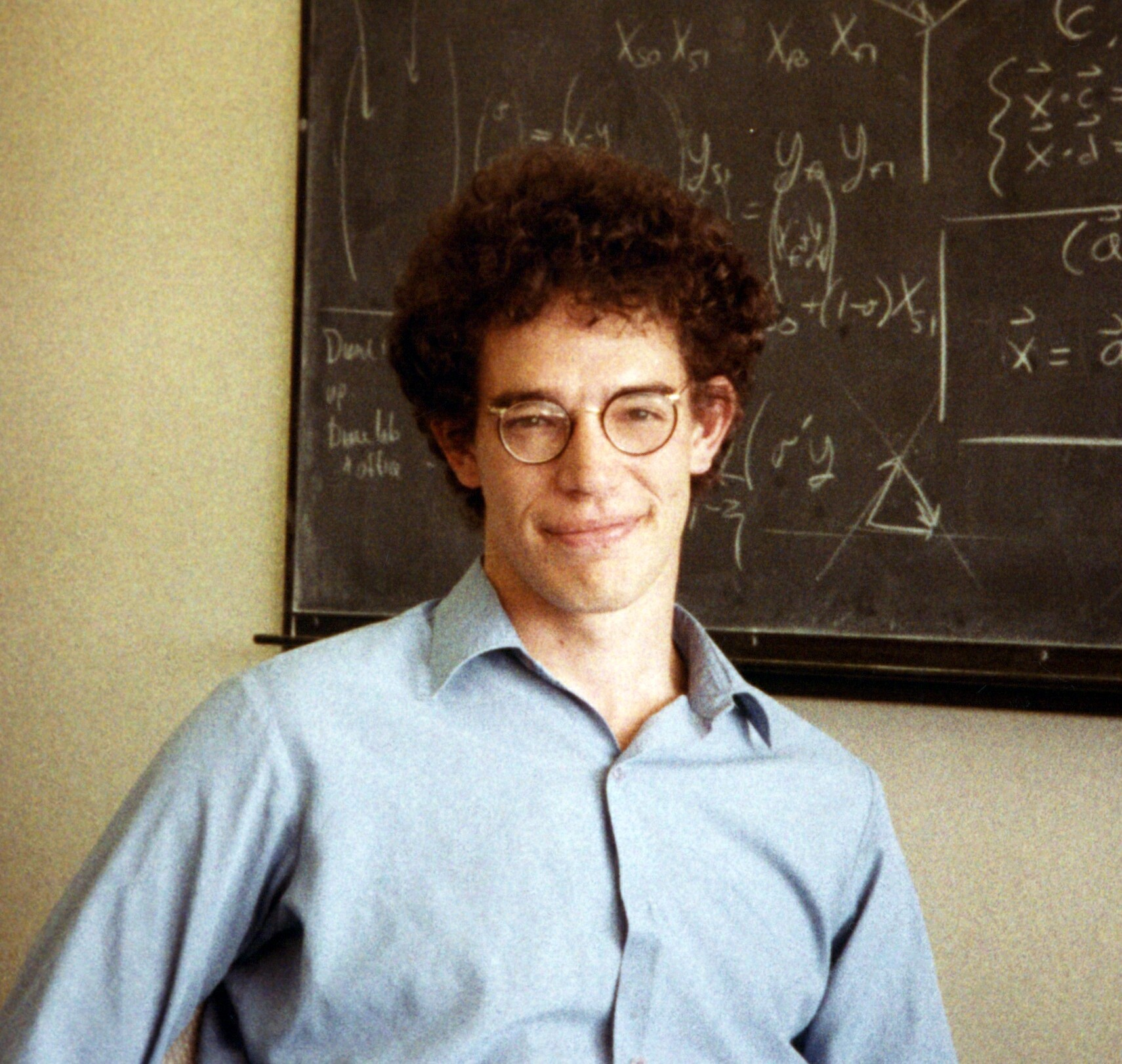 Mathematical physicist and cosmologist Neil Turok, circa 1990.